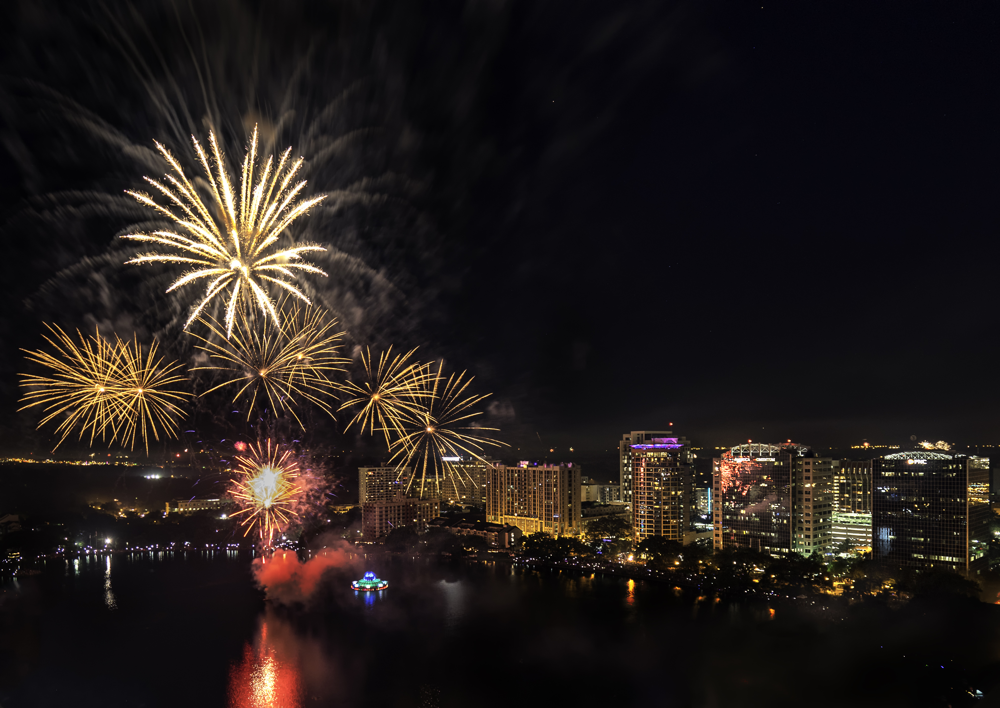 4th of July fireworks over Lake Eola as seen from The Vue.